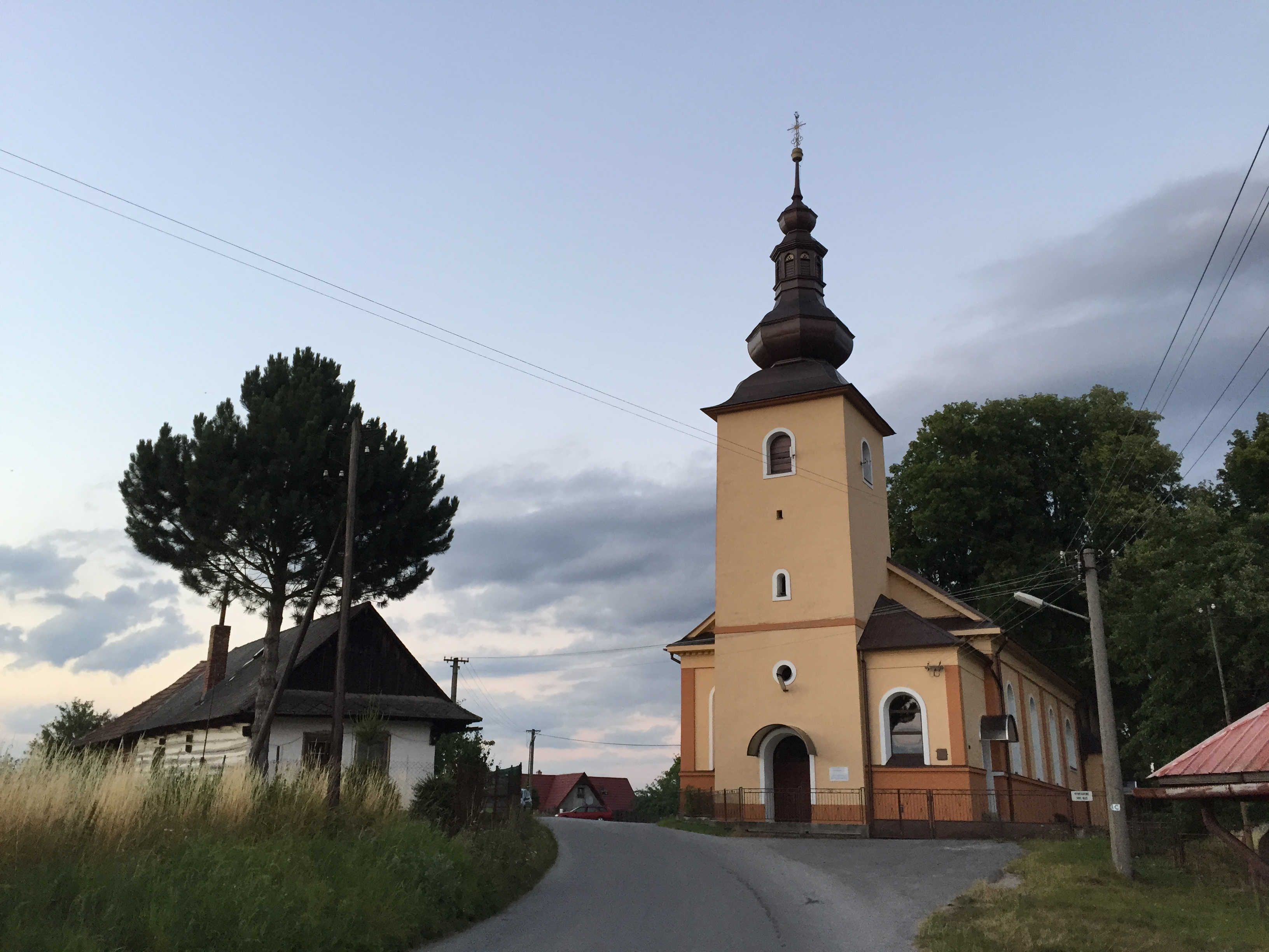 Evangelical church in Ivančiná, Slovakia.